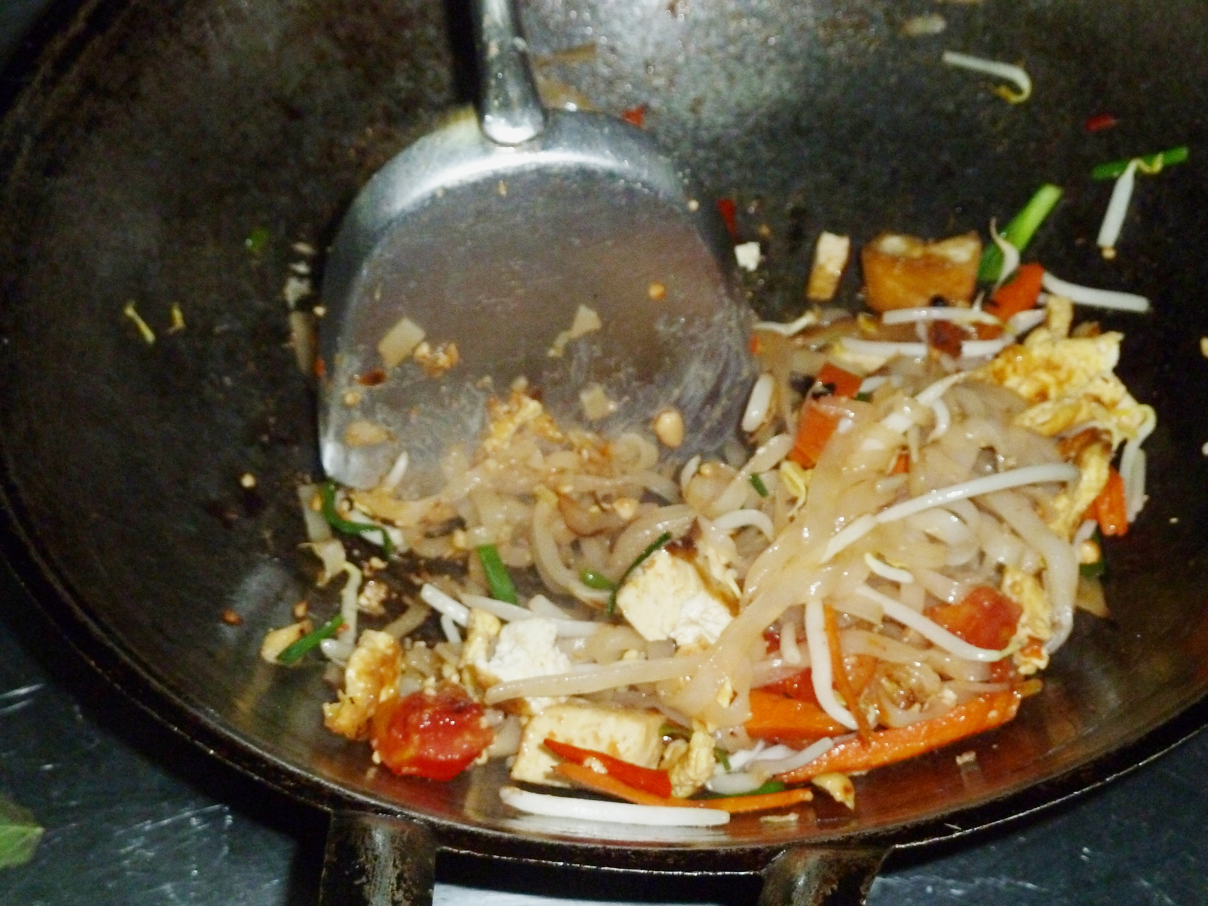 Preparing Thai Pad Thai, May Kaidee's Cooking School, Bangkok, Thailand